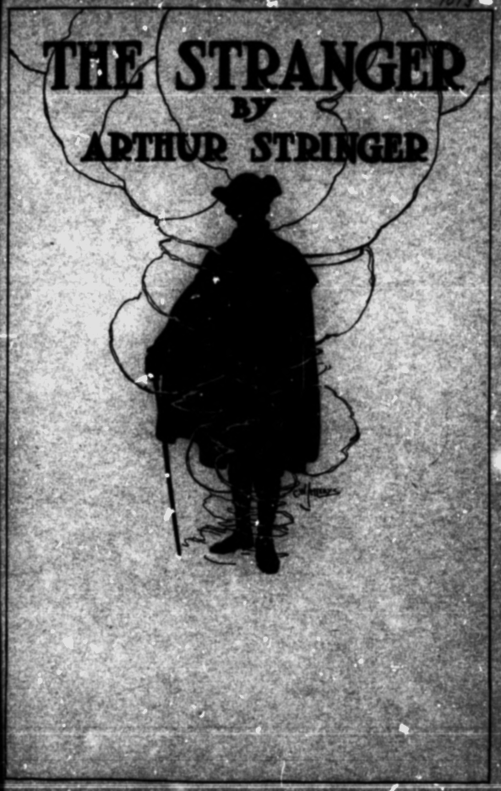 Page 9, illustration from scan of booklet "The Stranger," written by Arthur Stringer and illustrated by Charles William Jefferys.